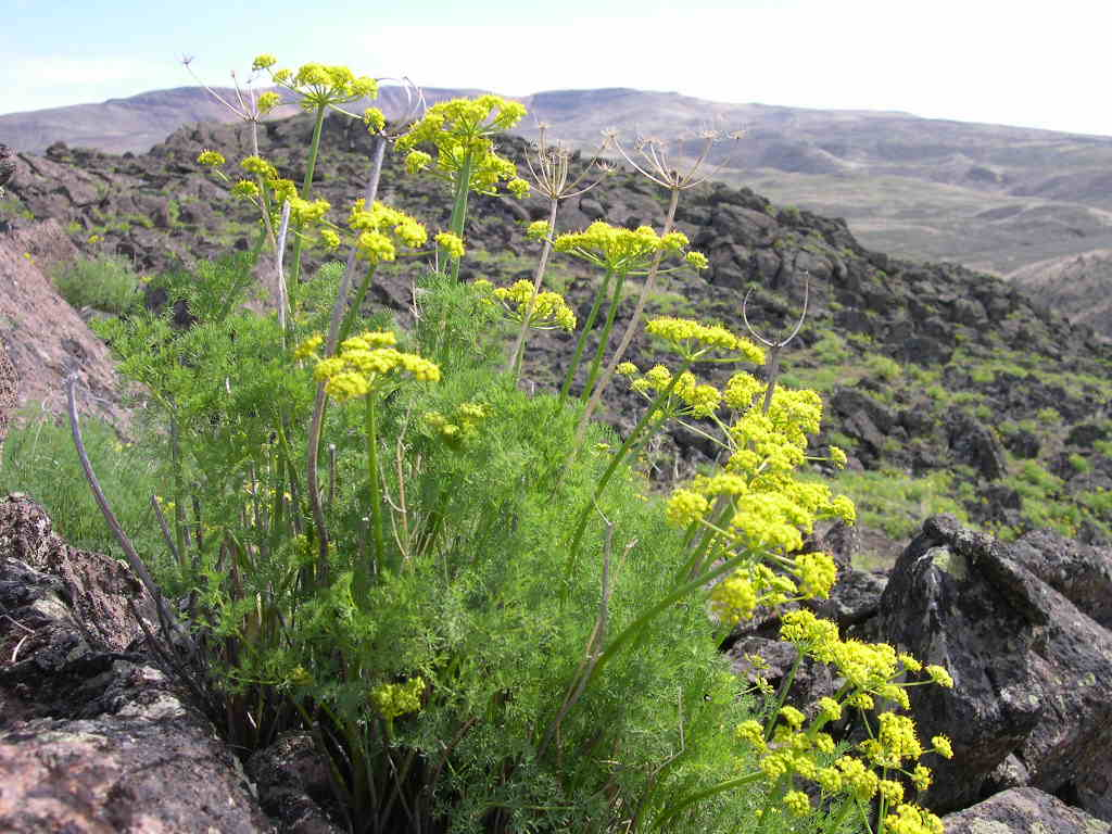 Lomatium grayi in southwest Idaho